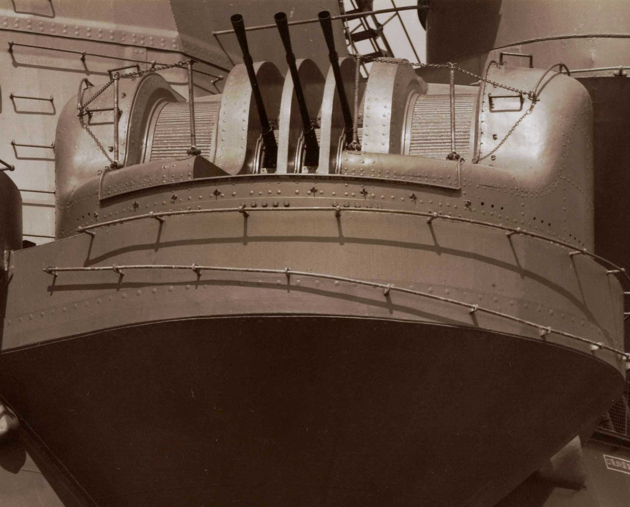 Emperor Hirohito of Japan (front row, center), with officers of the Imperial Japanese Navy, on board the Japanese battleship Musashi off Yokosuka Naval Base, 24 June 1943. Admiral Osami Nagano is sixth from left in the front row.